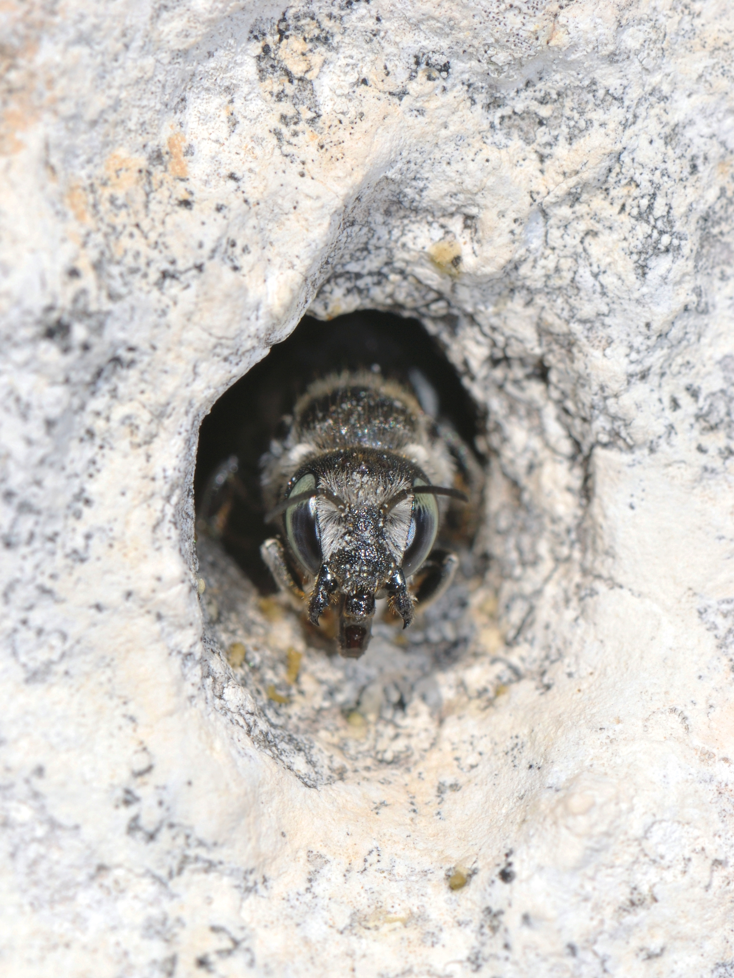 Osmia distinguenda, female at the nest entrance, Judean Foothills, Israel, May 6, 2011. Det. Andreas Mueller 2011.